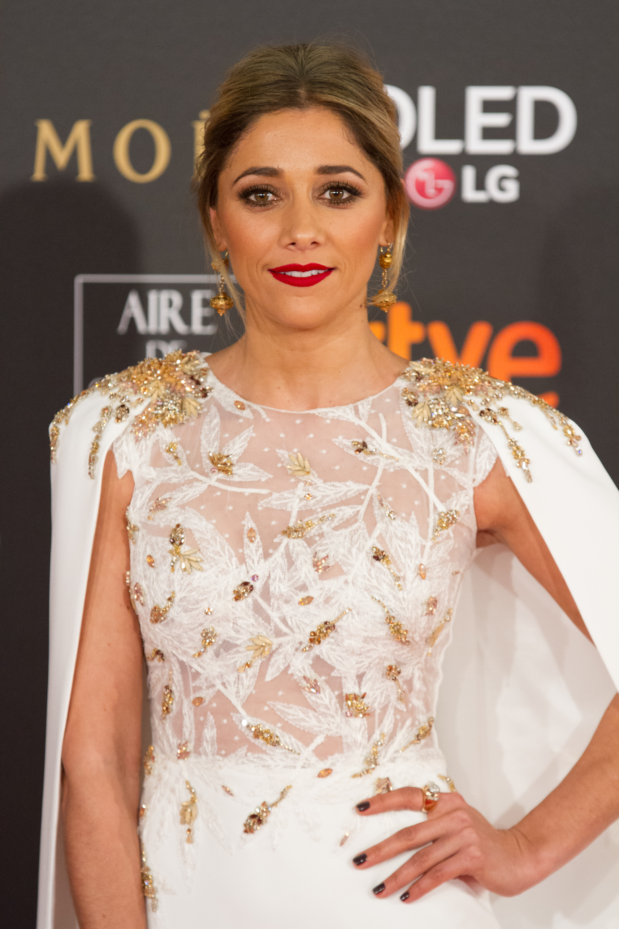 32nd Goya Awards, 2018.